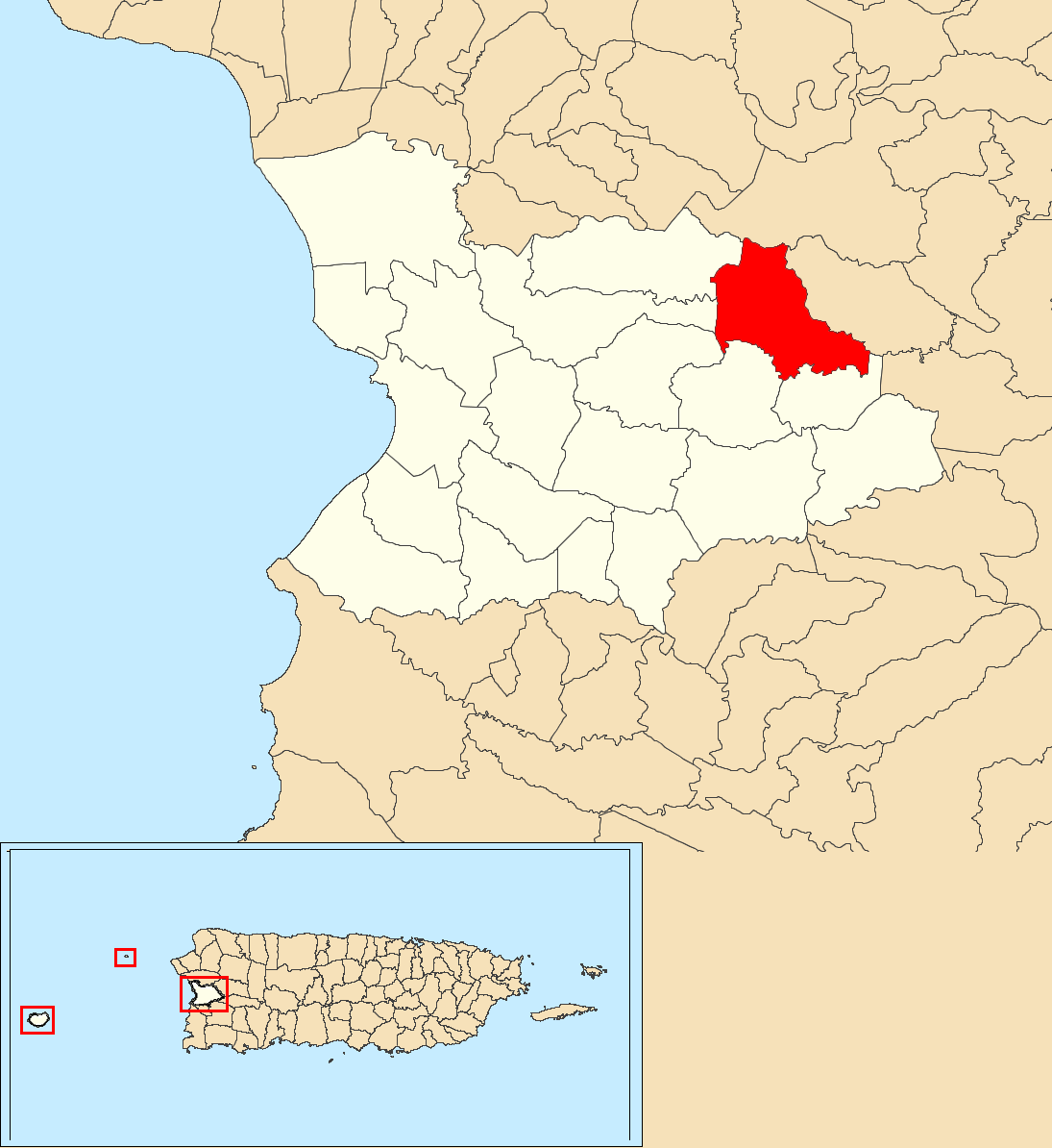 Río Cañas Arriba, Mayagüez, Puerto Rico locator map